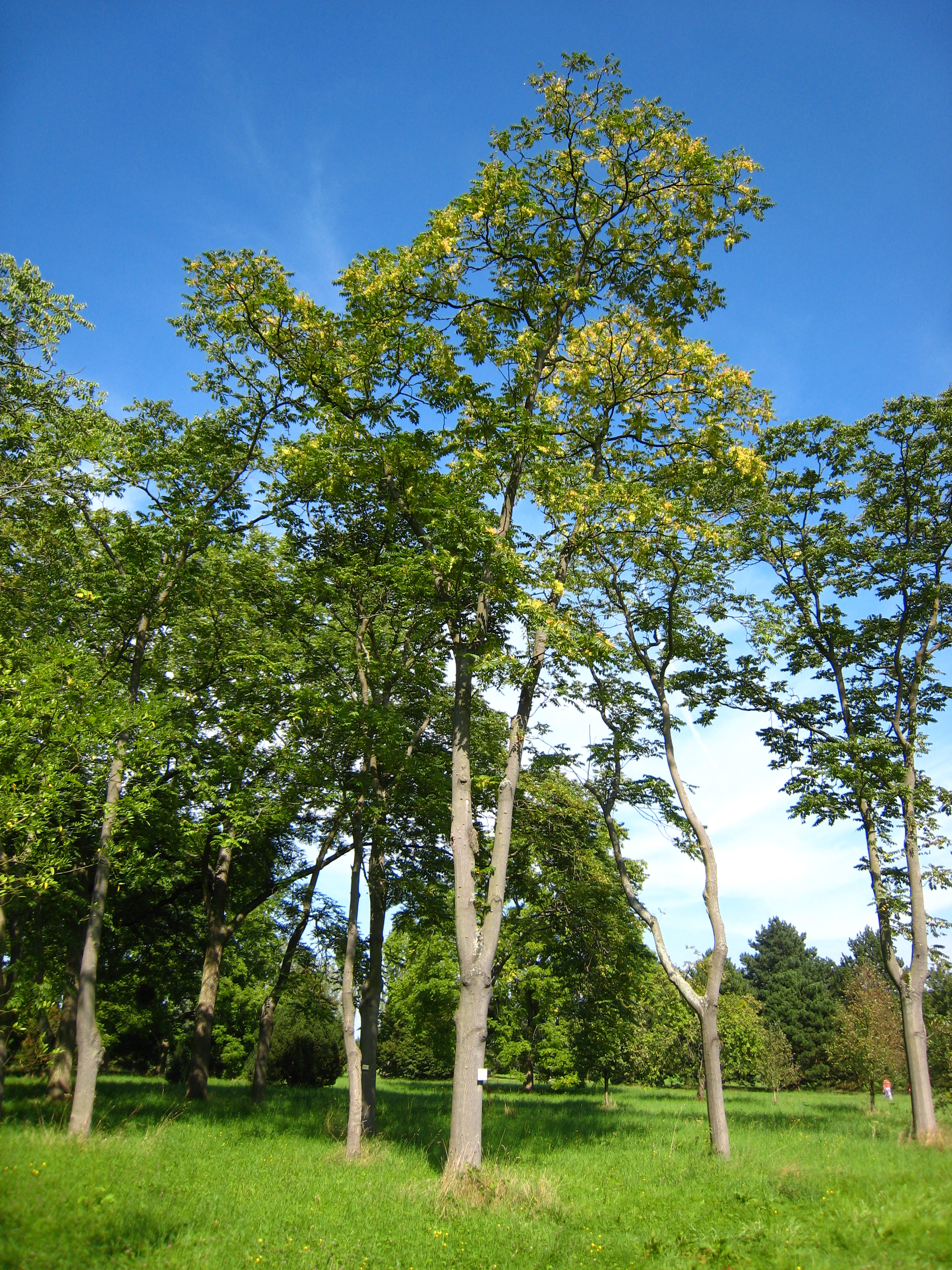 Ailanthus altissima (=Ailanthus glandulosa) in the Arboretum de Chèvreloup in Rocquencourt